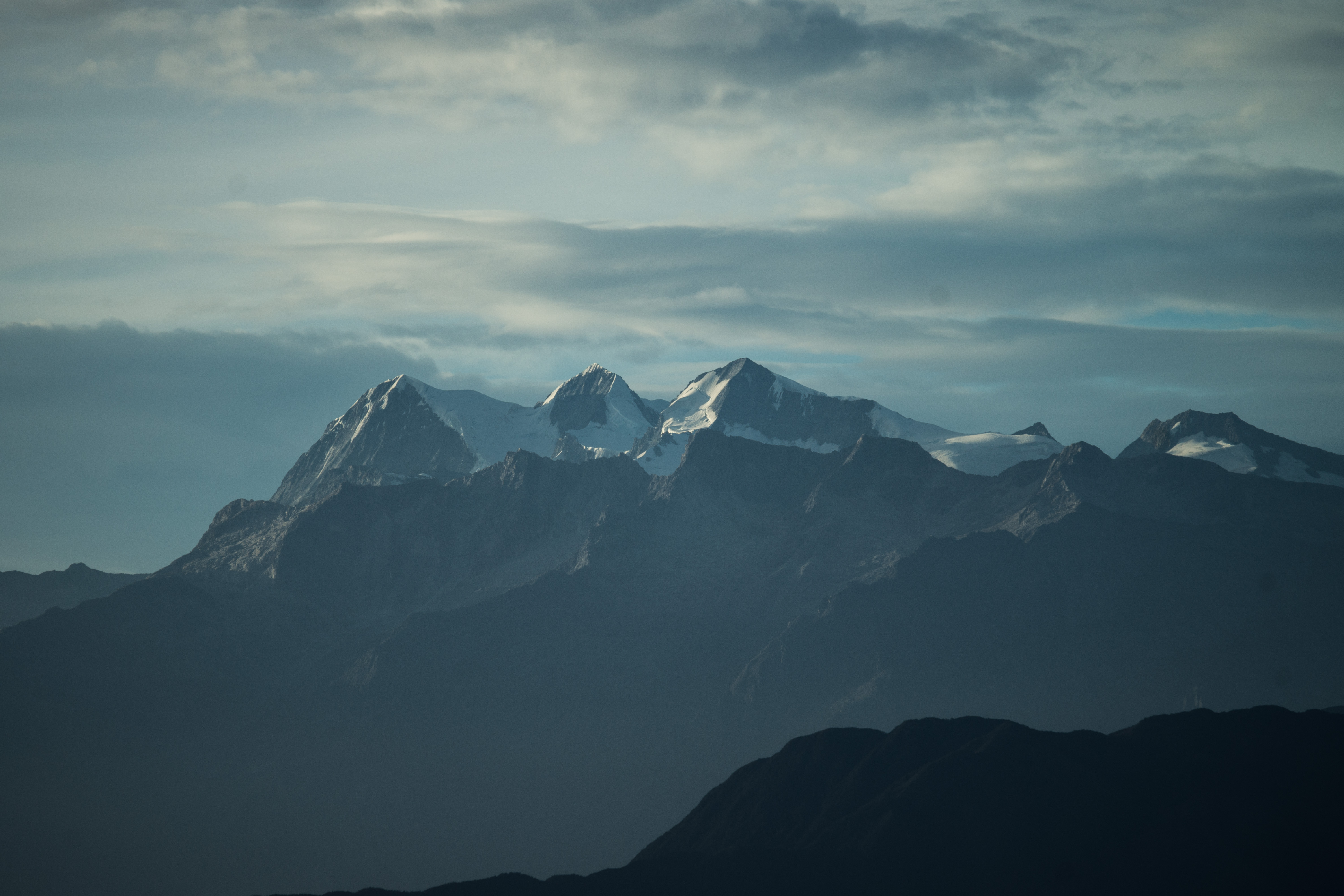 This is an image of the Biosphere Reserve or a Geopark: Sierra Nevada de Santa Marta